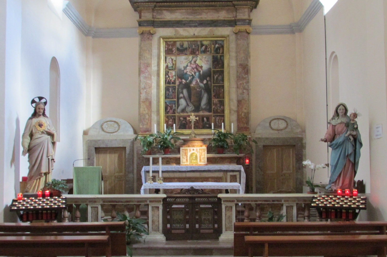 Chapel of the Rosary in Saint Peters (Assisi)